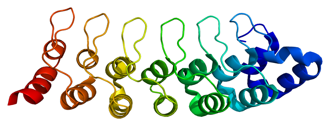 Structure of the PSMD10 protein. Based on PyMOL rendering of PDB 1qym.